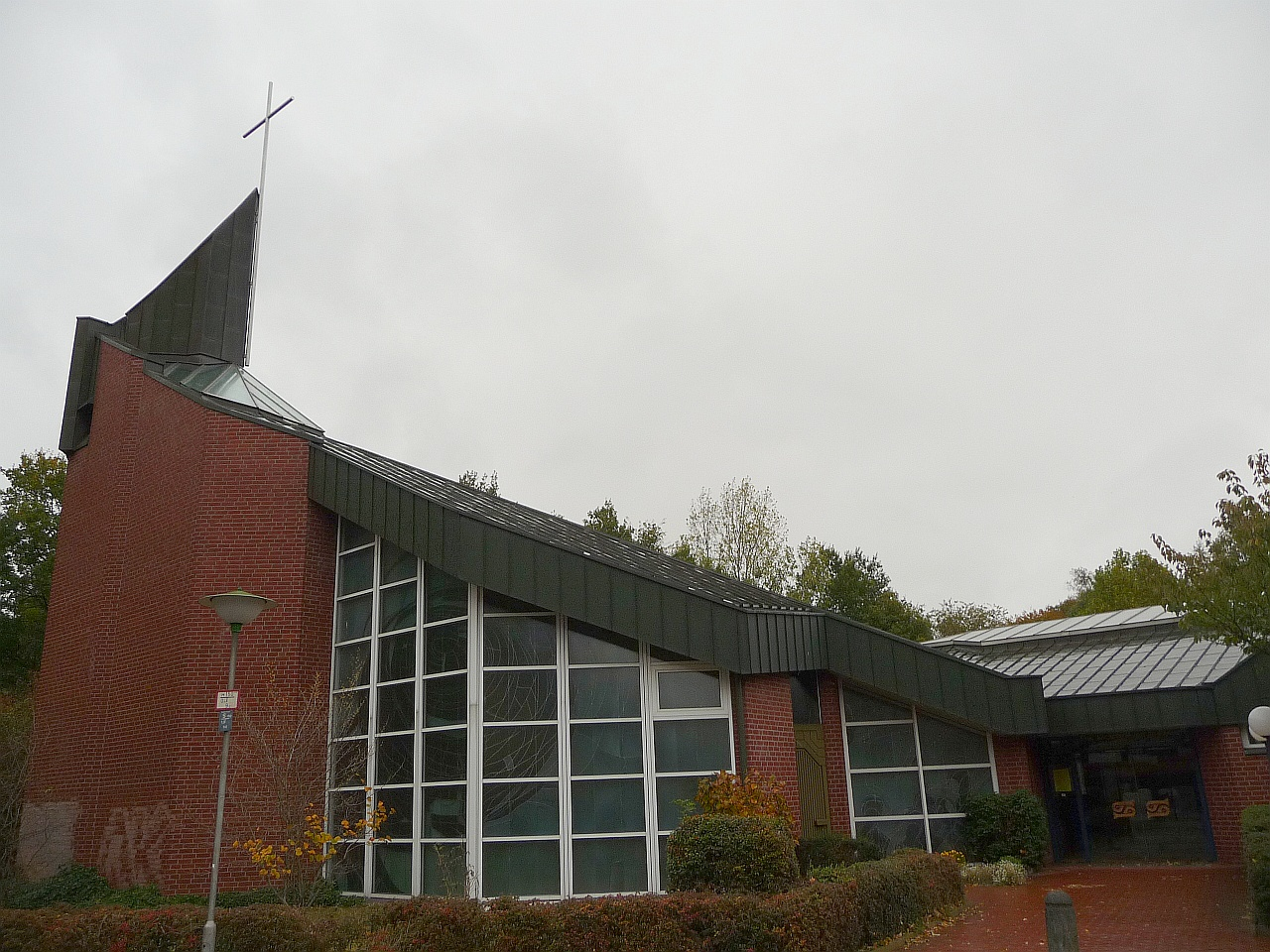 Church St. Thomas in Bremen-Osterholz